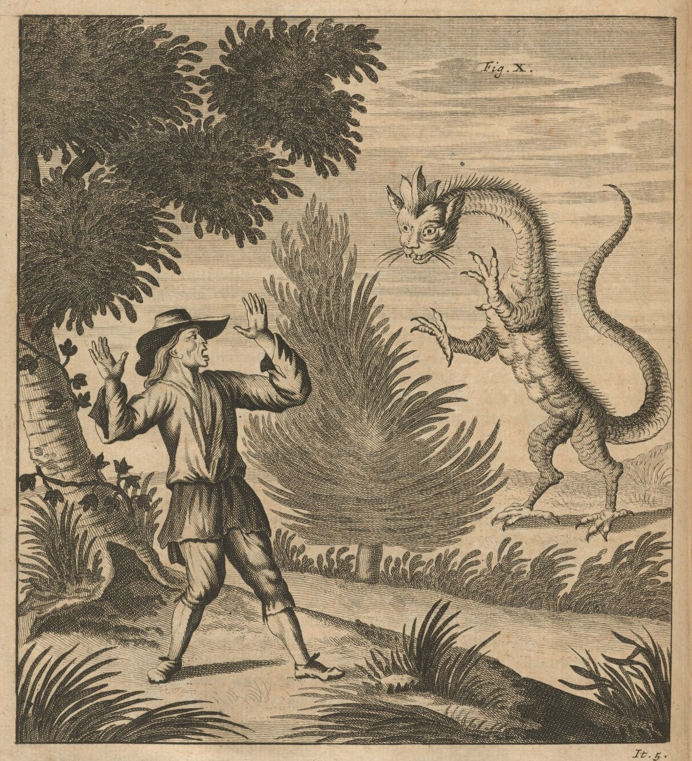 Illustration (fig. X) depicting a mythical "Alpine dragon" from Ouresiphoítes helveticus, sive Itinera per Helvetiæ alpinas regiones facta..., 1723, by Johann Jakob Scheuchzer (1672-1733), illustration to p. 385. It was a four-footed dragon with a catlike face and a crest (German: Haarbusch) on top, and a tail 3 ells long. Encountered by Andreas Roduner ca. 1660 on Wangserberger mountain.[1][2][3][4] It is only one of many unspecified dragons (draco) of the Swiss Alps treated in the original sources (J. J. Wagner and Scheuchzer), but Meurger & Gagnon 1988, p. 266 counts it as an example of Stollenwurm/Tatzelwurm.[5]